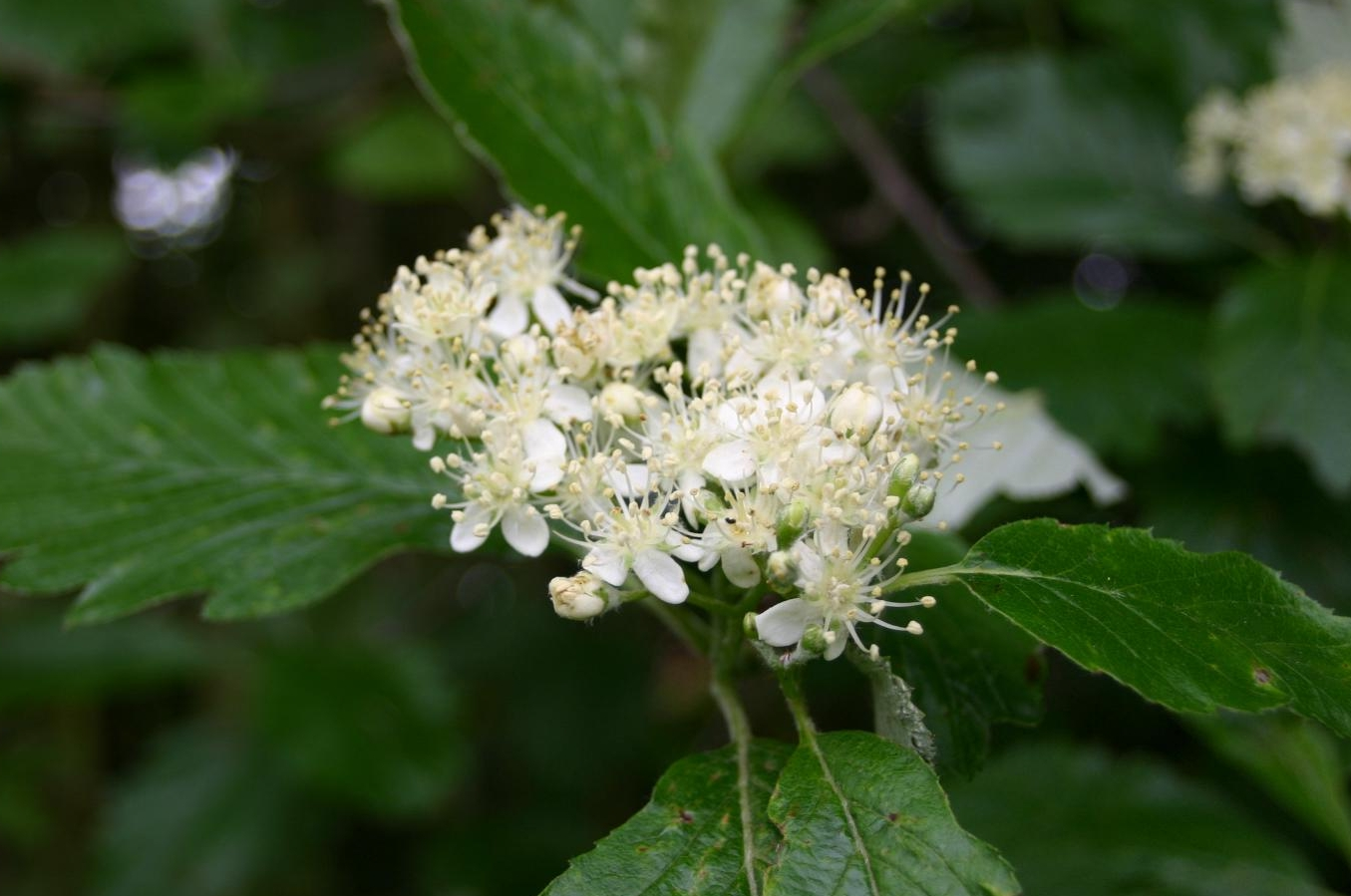 Sorbus intermedia: Flowers.